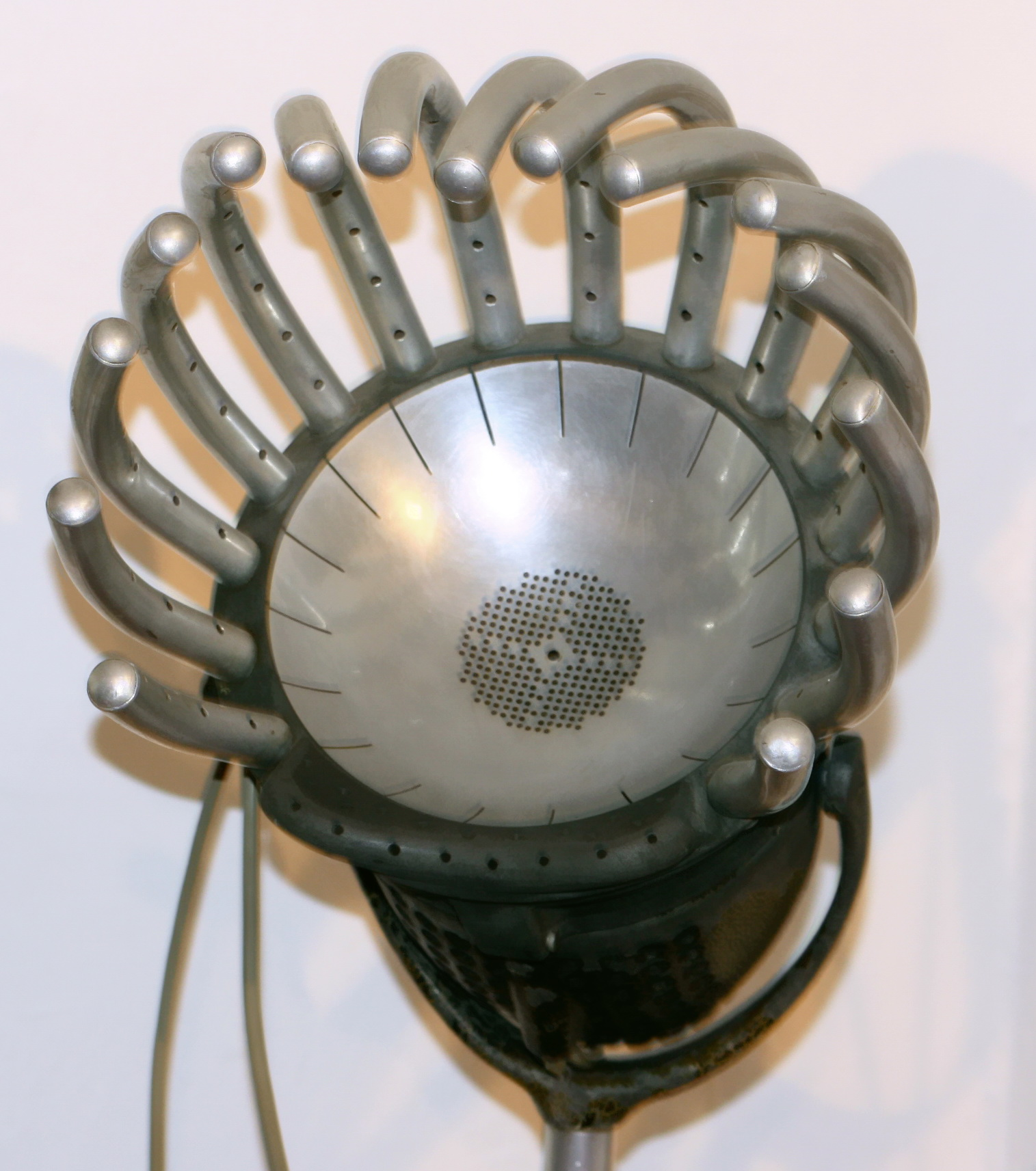 hairdryer